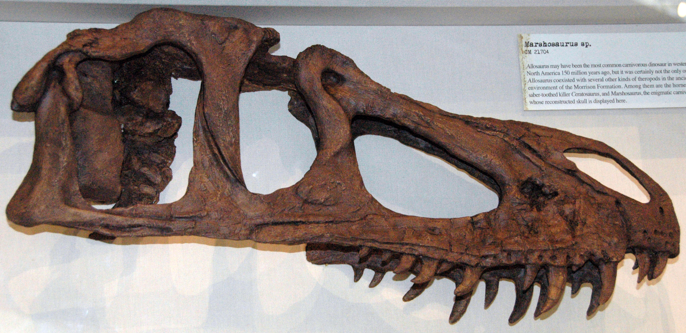 Marshosaurus sp. (or Marshosaurus bicentesimus) theropod dinosaur skull (reconstructed) from the Jurassic of Utah, USA (public display, CM 21704, Carnegie Museum of Natural History, Pittsburgh, Pennsylvania, USA). Stratigraphy: Morrison Formation, Upper Jurassic Localty: Dinosaur National Monument, northeastern Utah, USA Theropod were small to large, bipedal dinosaurs. Almost all known members of the group were carnivorous (predators and/or scavengers). They represent the ancestral group to the birds, and some theropods are known to have had feathers. Some of the most well known dinosaurs to the general public are theropods, such as Tyrannosaurus, Allosaurus, and Spinosaurus.